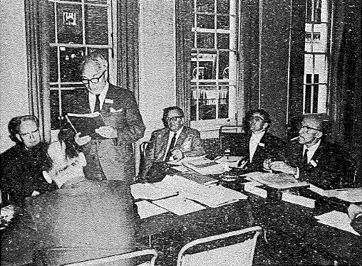 For some years, Mr. Harald, Director of the Swedish Inventions Office in collaboration with Mr. Leif Nordstrand collected information and made contacts in other countries and worked quietly away preparing the ground for the formation of international inventors bodies. The first Statutes were drafted on 27 June 1968, circulated prior to the conference, and approved during the General Assembly meeting. The first President of the newly established inventors' federation was elected to be Mr. W.A. Richardson, chairman of the British Institute of Patentees and Inventors. The vice presidents were Dr. F. Burmester (West Germany), S. Green (Great Britain), F. Pfaffli (Switzerland), H. Romanus (Sweden) and the chairman was S. Green (Great Britain). IFIA Secretariat was opened in 207 Abbey House, 2-8 Victoria Street, Westminster, London, and Mr. A. L. T. Cotterell, Secretary of the British Association was elected as the Secretary of the Federation. The council of the Institute of Patentees and Inventors, London, gave a dinner on Thursday, 11 July at the Hotel Café Royal, Regent Street, London, to commemorate the inauguration of the new Federation.